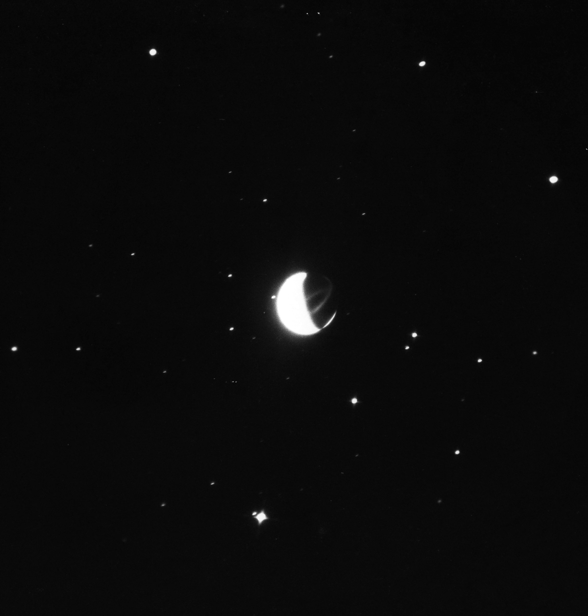 UV photo of Earth taken by Apollo 16